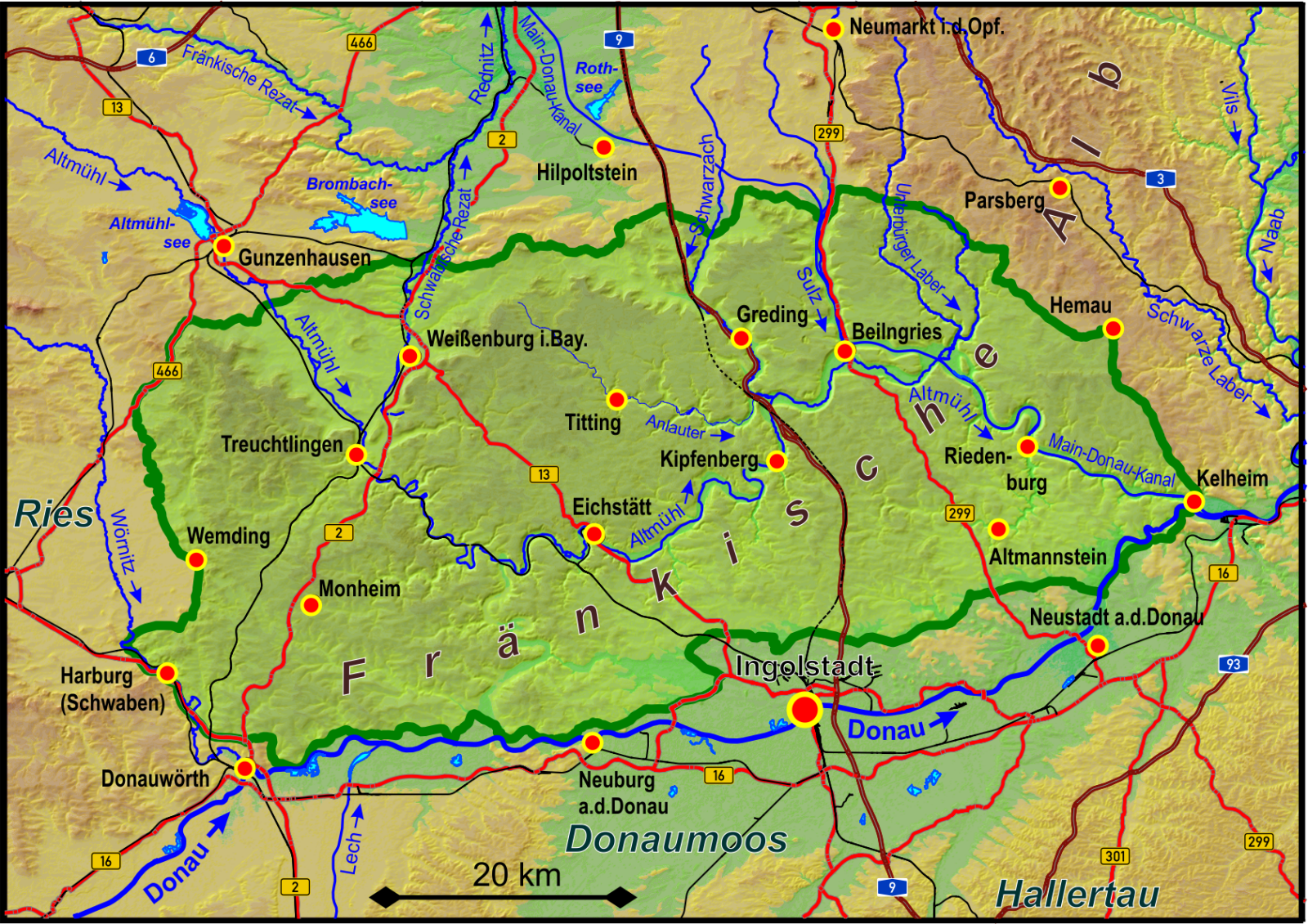 Topography of the Naturpark Altmühltal